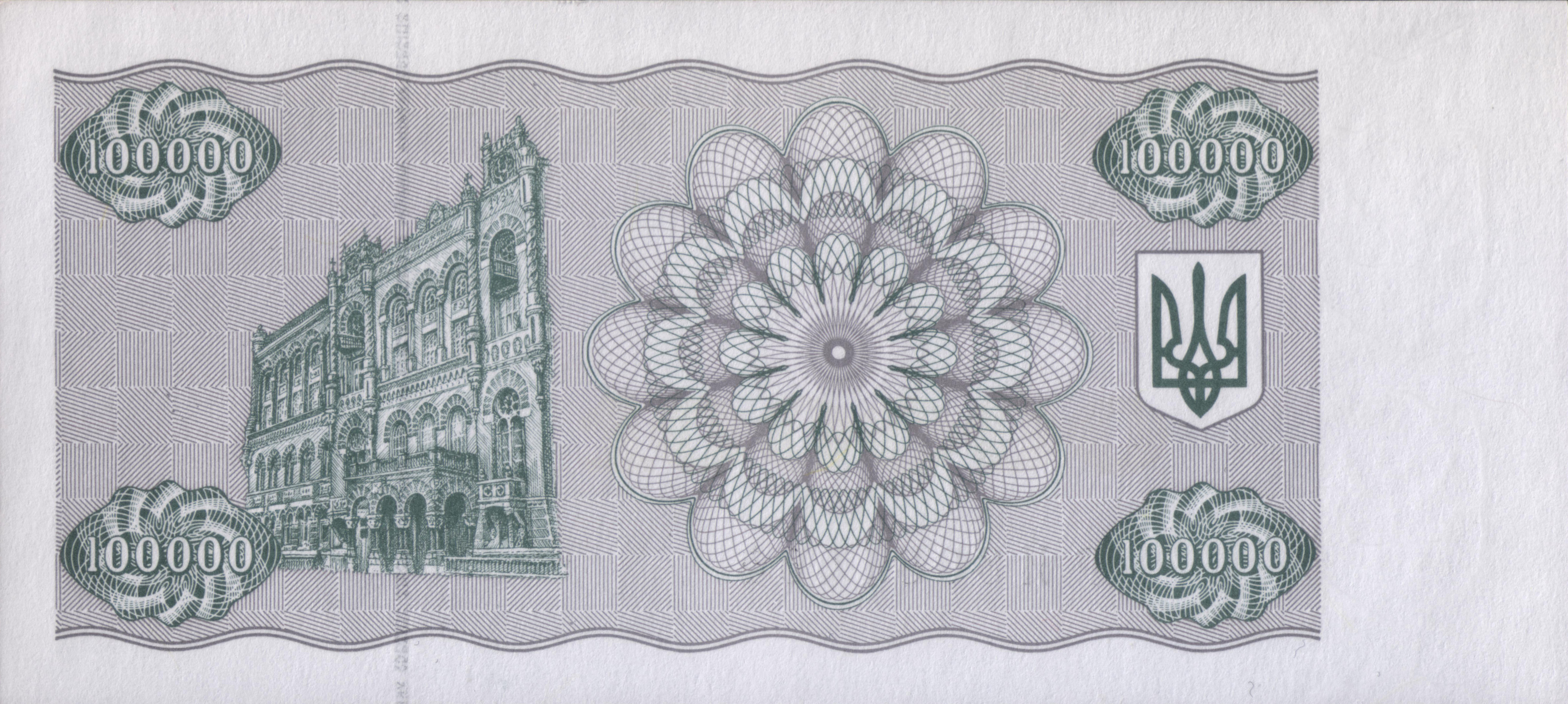 100000 karbovanets (1994)